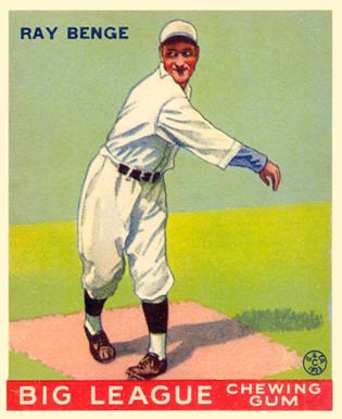 1933 Goudey baseball card of Ray Benge of the Philadelphia Phillies #141. PD-not-renewed.